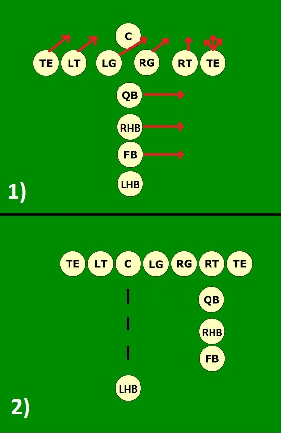 A diagram of John Heisman's shift formation. The team lined up as shown in Diagram 1, shifted to the alignment in Diagram 2, stopped for a split second, then took off. The ball could also be centered to any of the other backs.